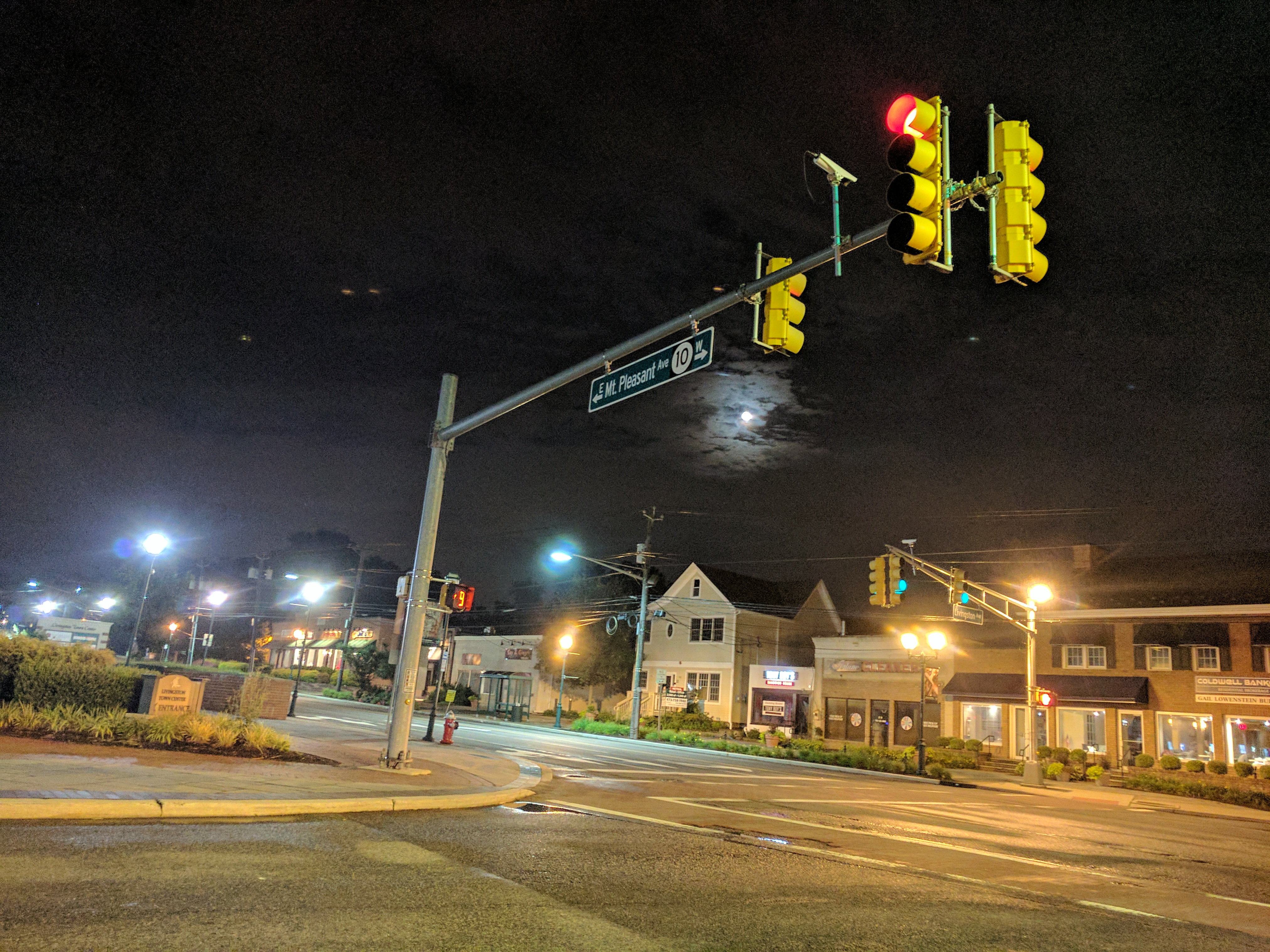 A night photo of the intersection of Livingston Ave and State Route 10 in Livingston NJ, US.